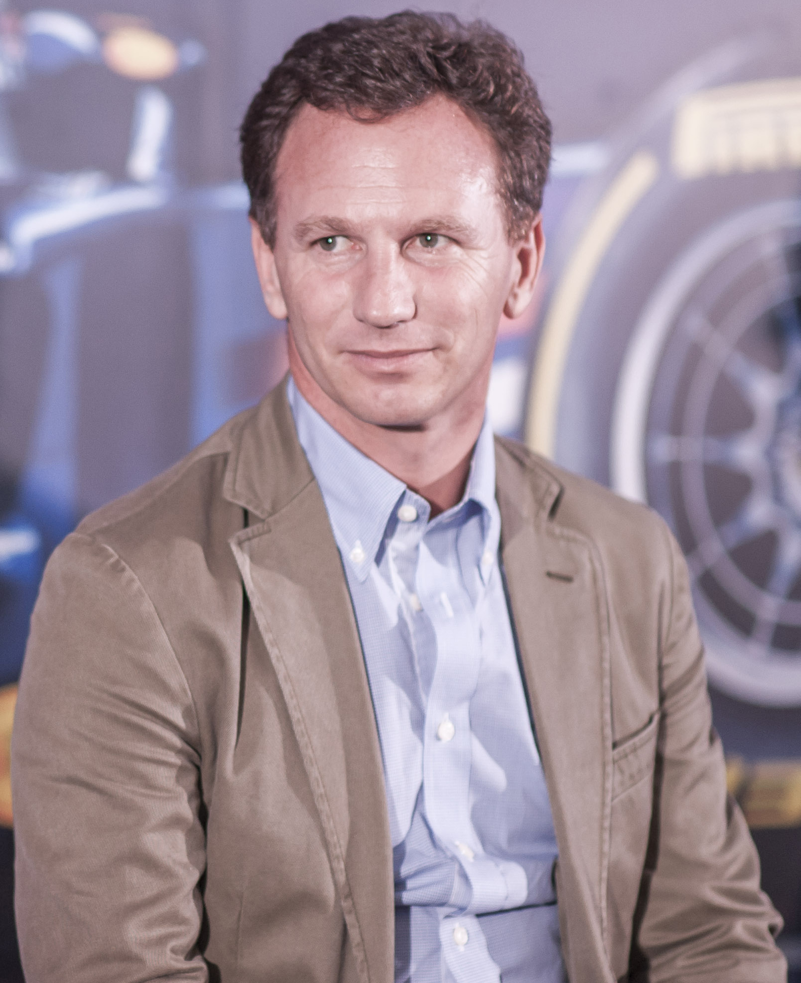 Christian Horner at the British Embassy in Tokyo, Japan.